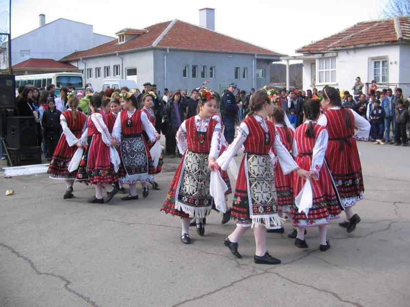 Lazarki, village Vresovo